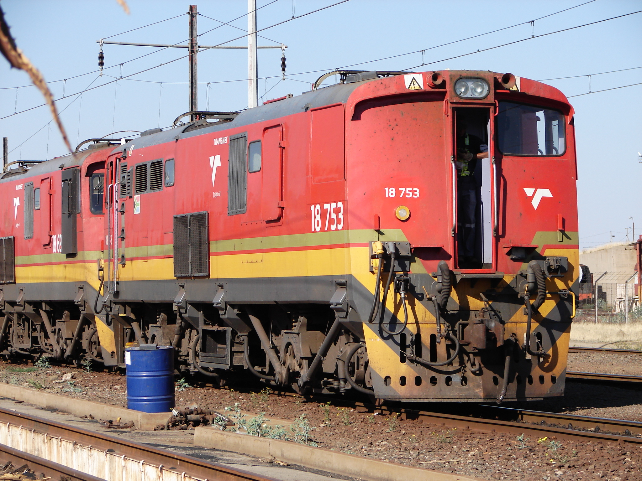 TFR Class 18E Series 2 no. 18-753Location: BeaconsfieldHistory: Rebuilt in 2013 from Class 6E1 Series 4 no. E1537